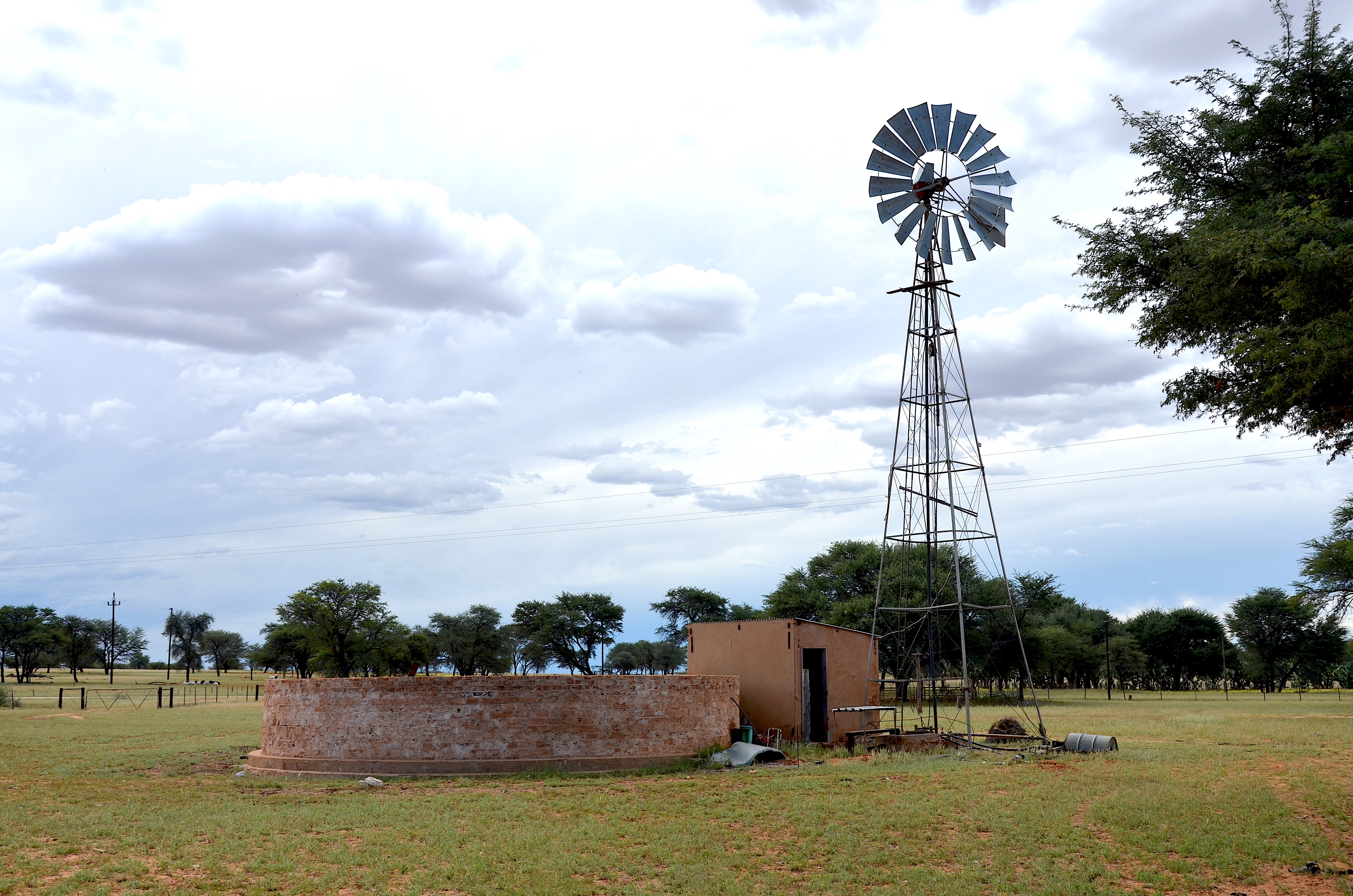 Windpump with basin seen in the Kalahari